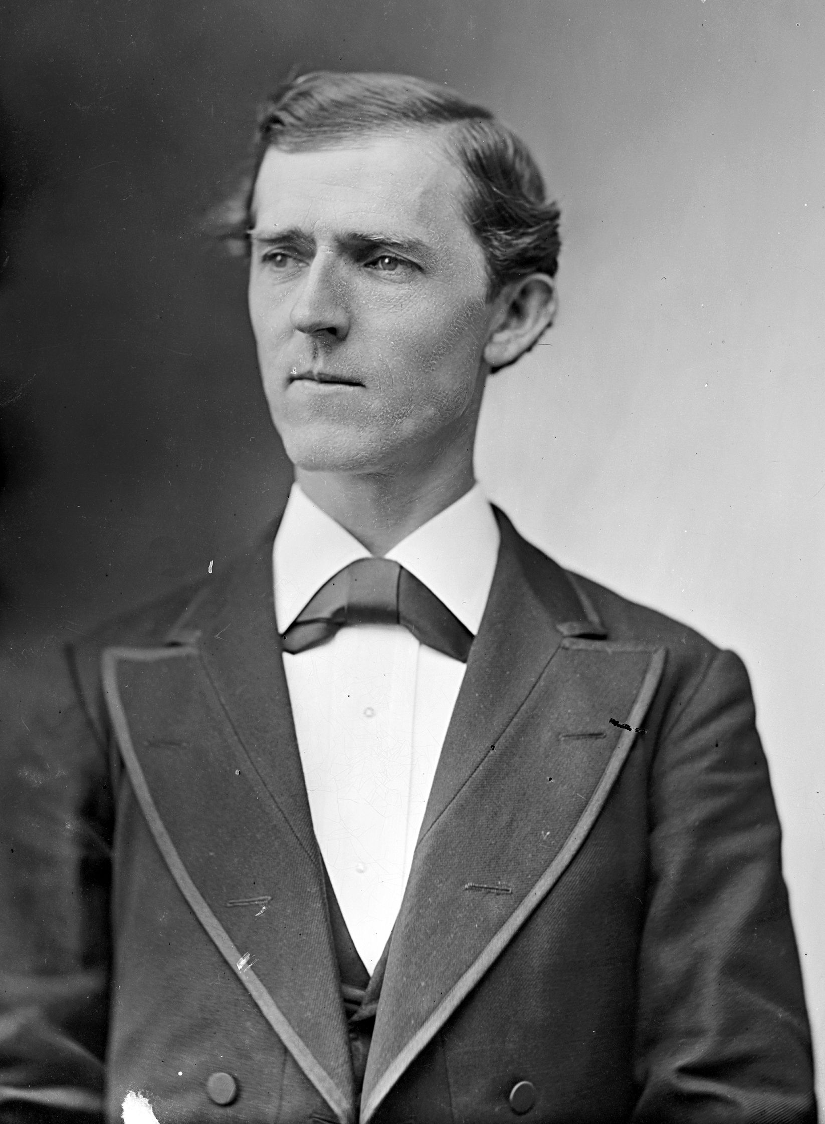 William Shadrack Shallenberger, US Representative from Pennsylvania